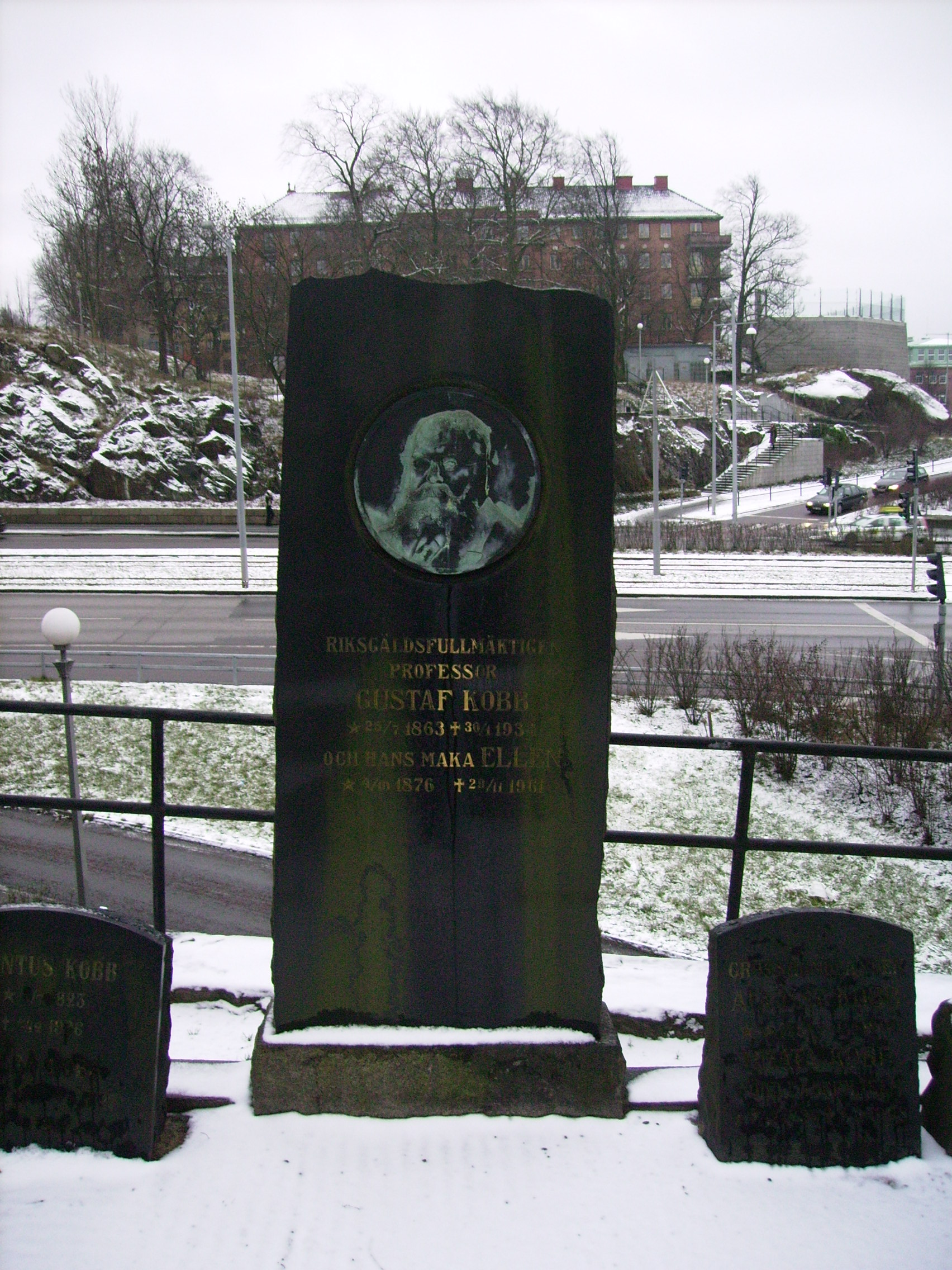 Picture of Gustaf Kobb's grave in Gothenburg.